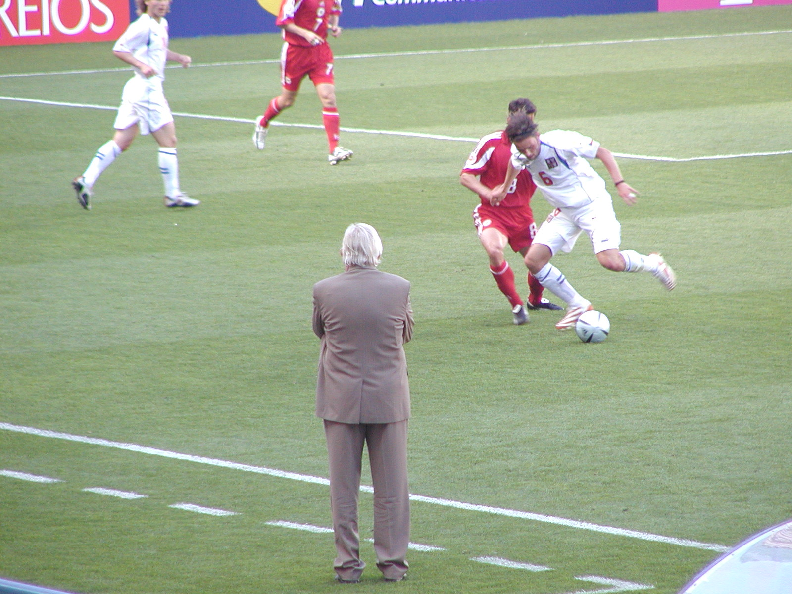 Karel Brückner coaching Czech republic team against Latvia (Euro 2004)